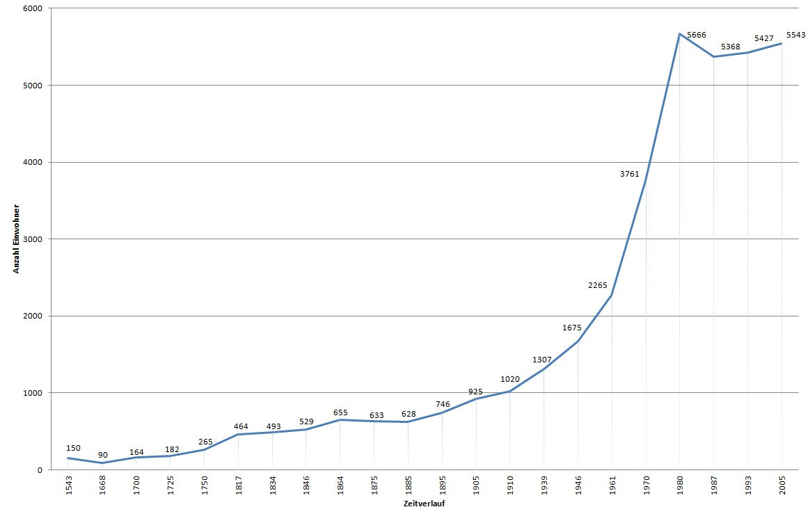 population development of Fischbach im Taunus